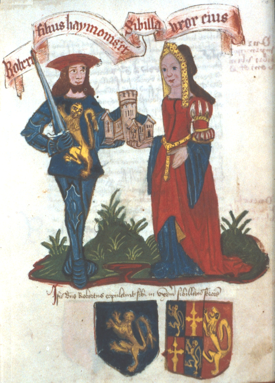 Robert Filius Haymonis et Sibilla uxor eius ("Robert FitzHamon (d.1107) and Sibilla (de Montgomery) his wife"). They are shown jointly giving the church building of Tewkesbury Abbey, of which they were founders. He wears a tabard showing attributed arms of: Azure, a lion rampant guardant or. Underneath below his wife is shown a shield of: quarterly 1 & 4: Azure, a lion rampant guardant or; 2&3: Gules a cross or impaling: Gules, a lion rampant or